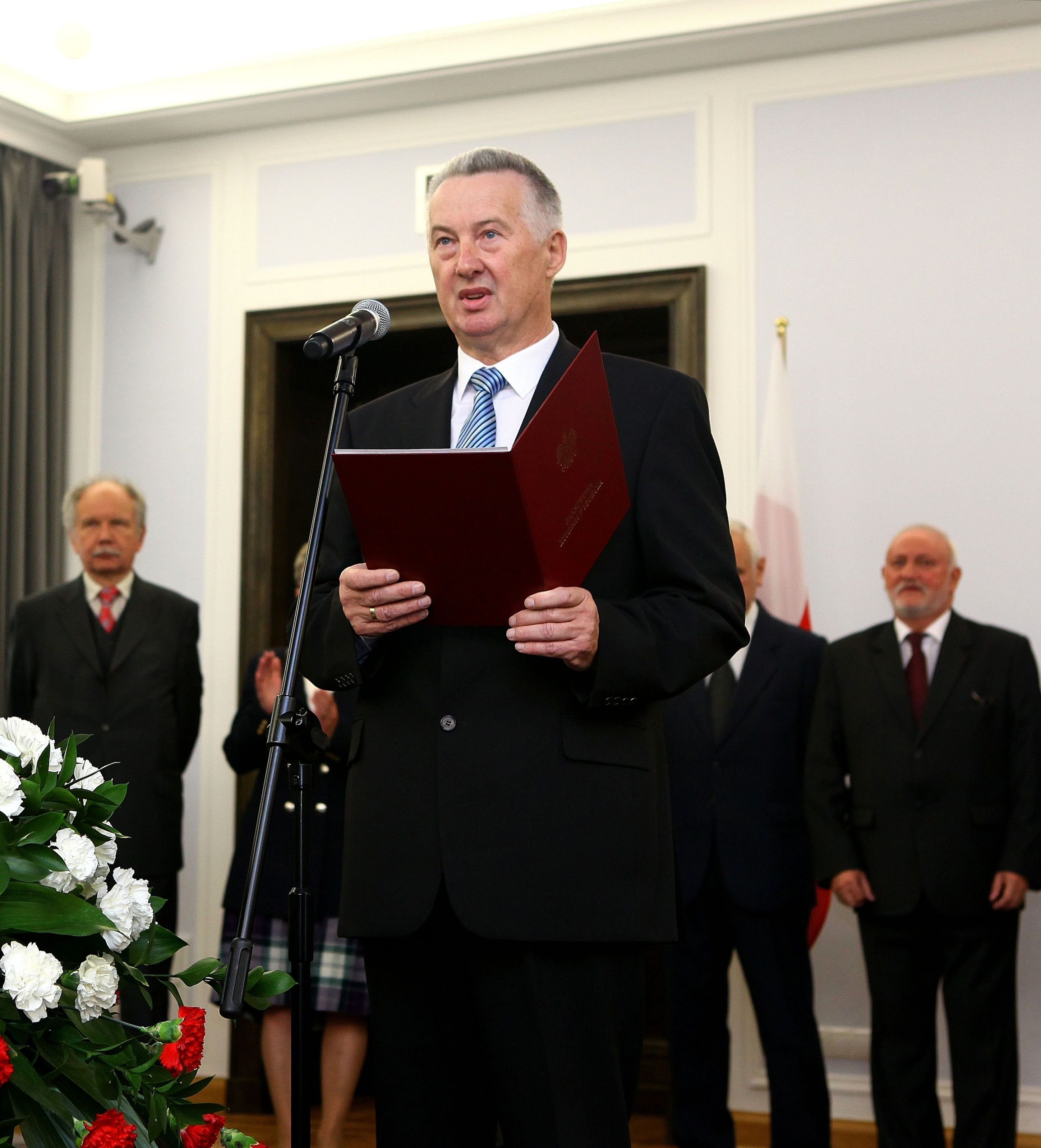 Head of the State Electoral Commission Stefan Jaworski in the Polish Senate